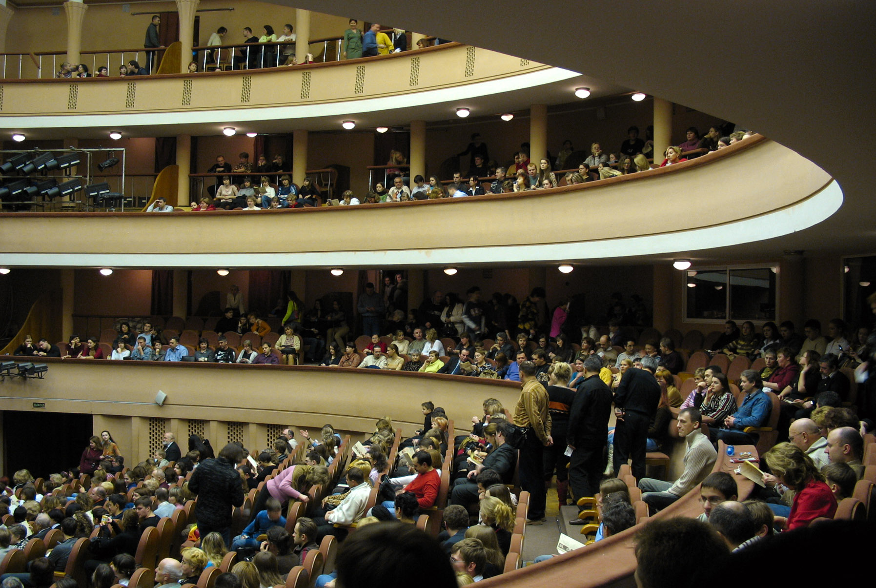 Moscow, Theatre of a name of the Mossovet. Rock opera interval "Jesus Christ Superstar"